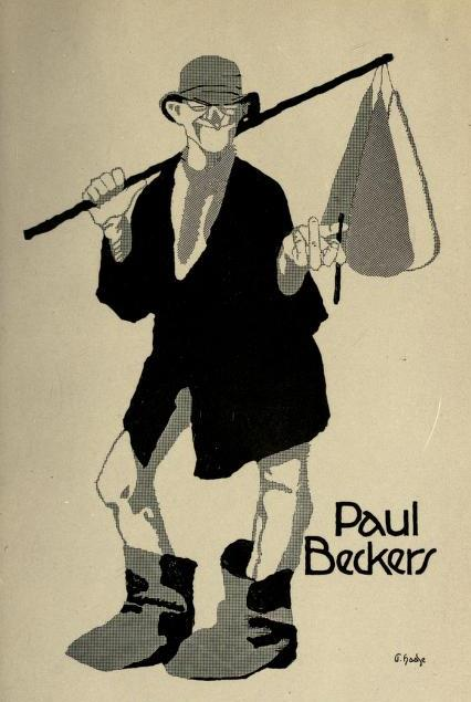 Sketch of Paul Beckers (1878-1965), German actor.